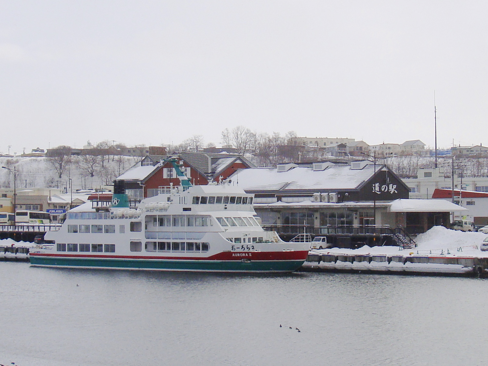 Roadside Station "Ryūhyō-kaidō Abashiri". Abashiri Drift Ice Sightseeing & Icebreaker Ship "Aurora II"